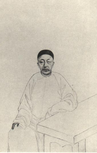 HUANG Shaoji, scholar of the Qing Dynasty.